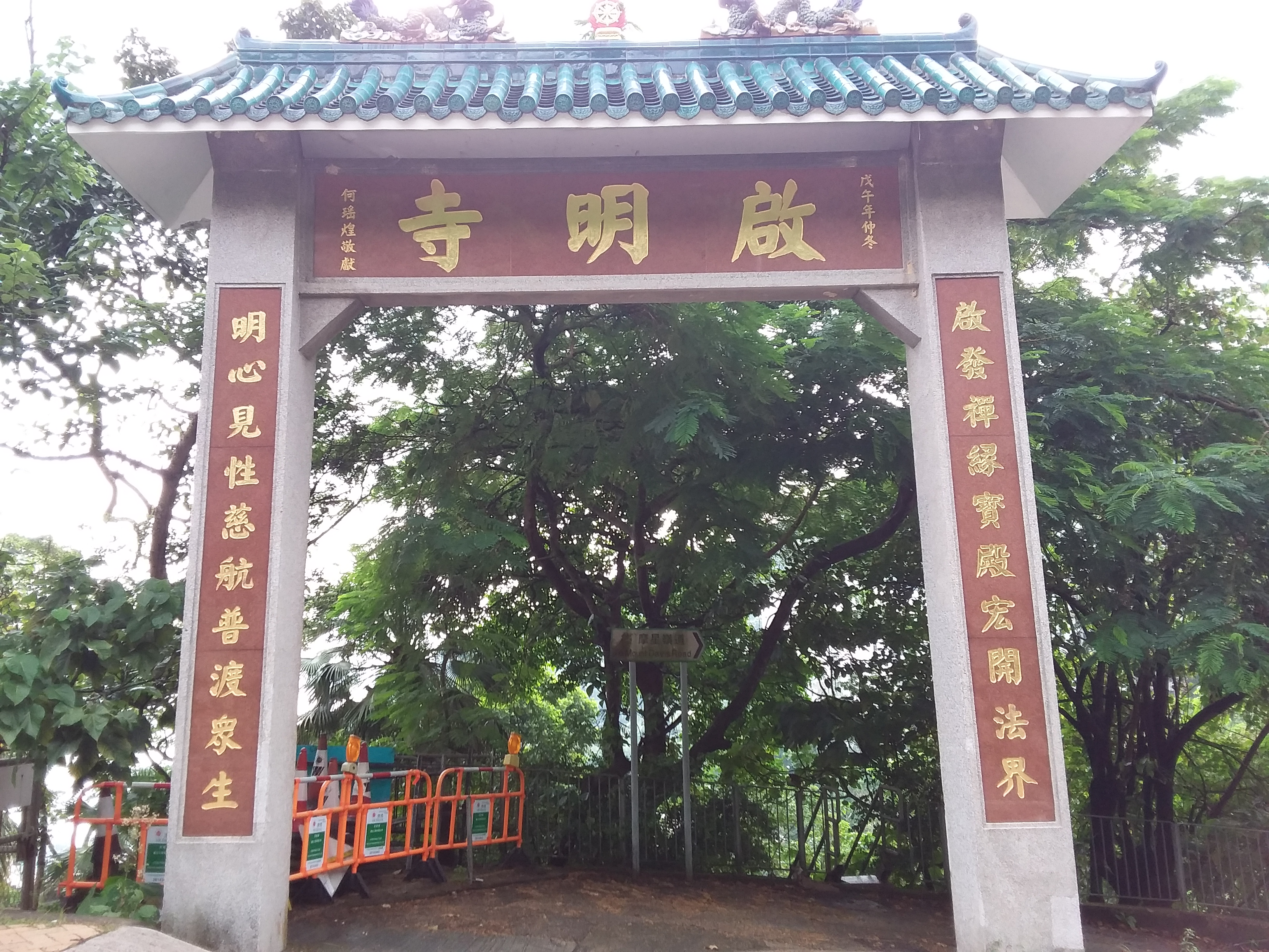 HK 香港南區 Southern District PFL Pokfulam 薄扶林道 Pok Fu Lam Road in September 2019